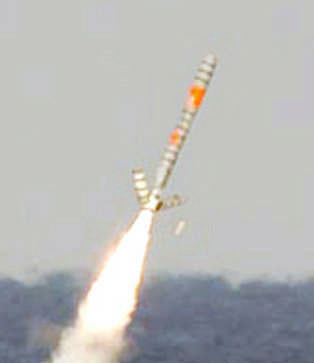 A Tomahawk Land Attack Missile (T-LAM) is launched from the US Navy (USN) OHIO CLASS: Strategic Missile Submarine, USS FLORIDA (SSBN 728), during Giant Shadow, a Naval Sea Systems Command (NAVSEA)/Naval Submarine Forces Experiment, conducted off the coast of the Bahamas. Giant Shadow is the first experiment under the ÒSea TrialÓ initiative of the Chief of Naval Operations (CNO) Sea Power 21 vision and the first in a series of experiments before converting and overhauling four SSBN class submarines to conventional weapons SSGN class.